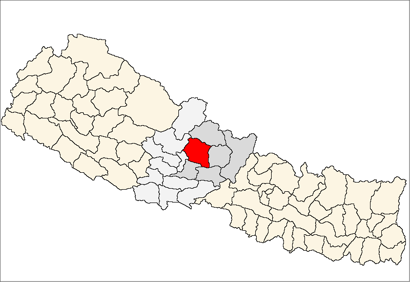 FrenchCarte de localisation dudistrict de Kaski(wp-FR),au Népal (wp-FR).EnglishLocation map ofKaski District(wp-EN),in Nepal (wp-EN).